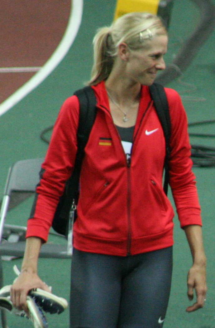 World Athletics Championships 2007 in Osaka - German long jumper Bianca Kappler after finishing fifth in the final.